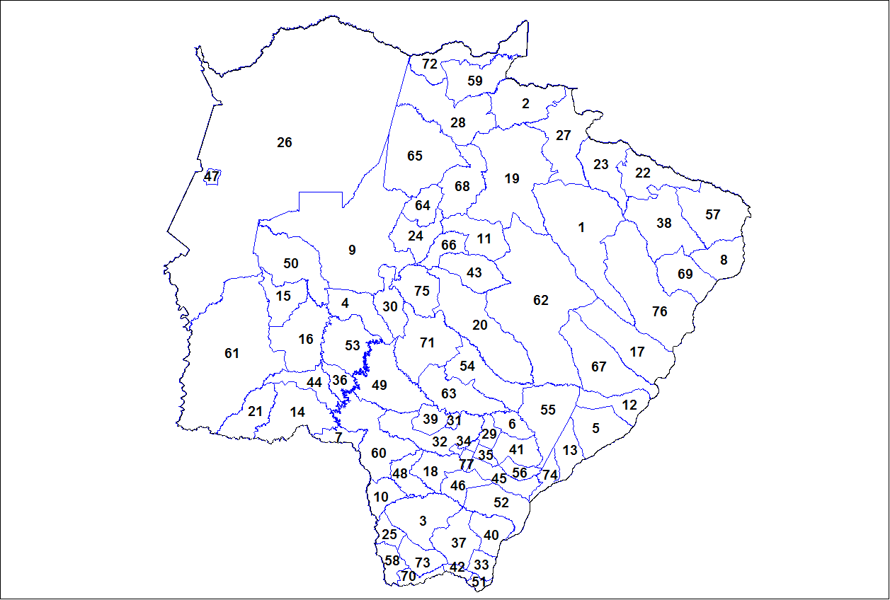 Map of the municipalities of the state of Mato Grosso do Sul, Brazil. Created by Rarelibra 21:53, 24 August 2006 (UTC) for public domain use. Created using MapInfo Professional v8.5 and various mapping resources.